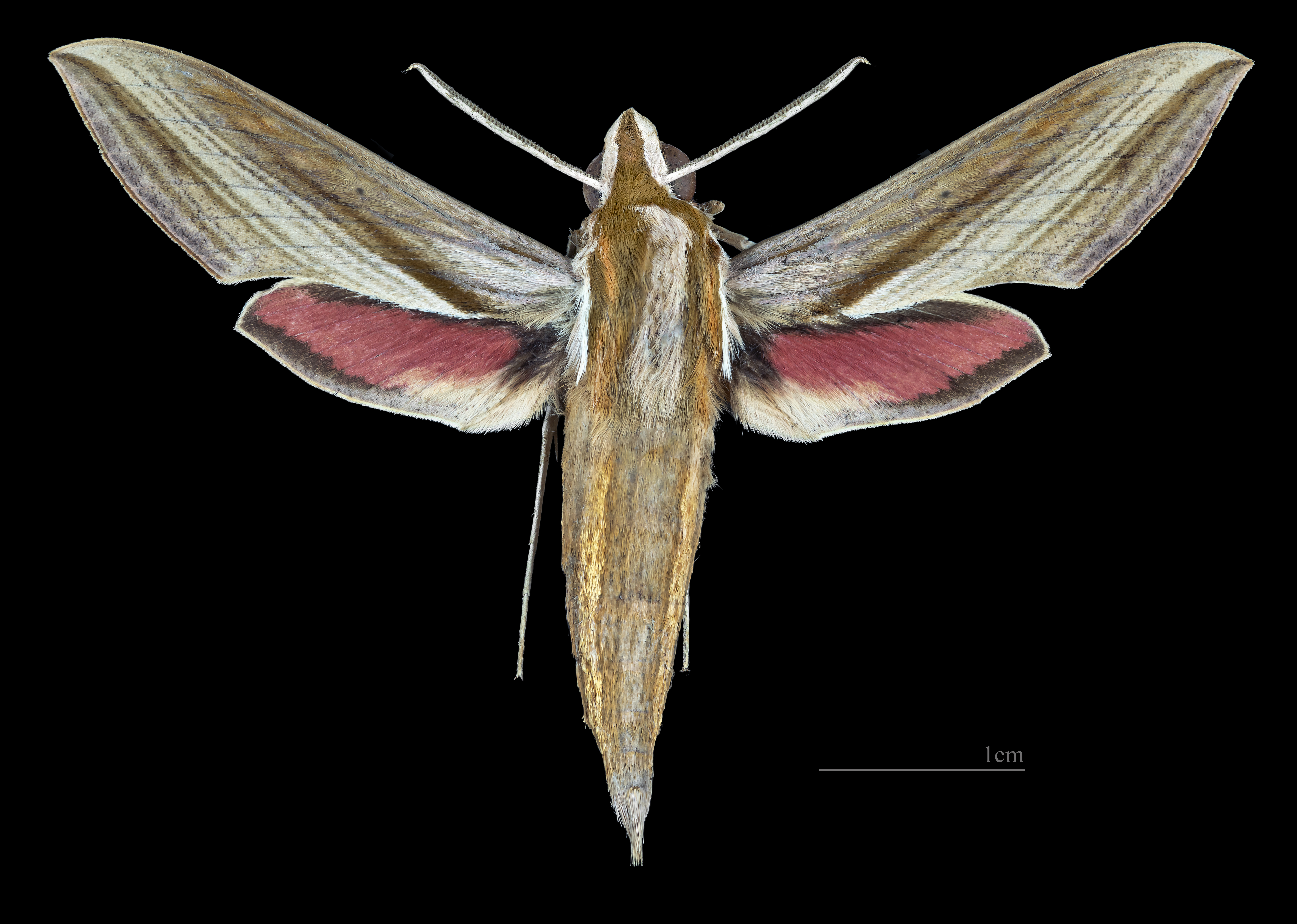 Hippotion echeclus - Dorsal side Collection of the Mathematician Laurent Schwartz